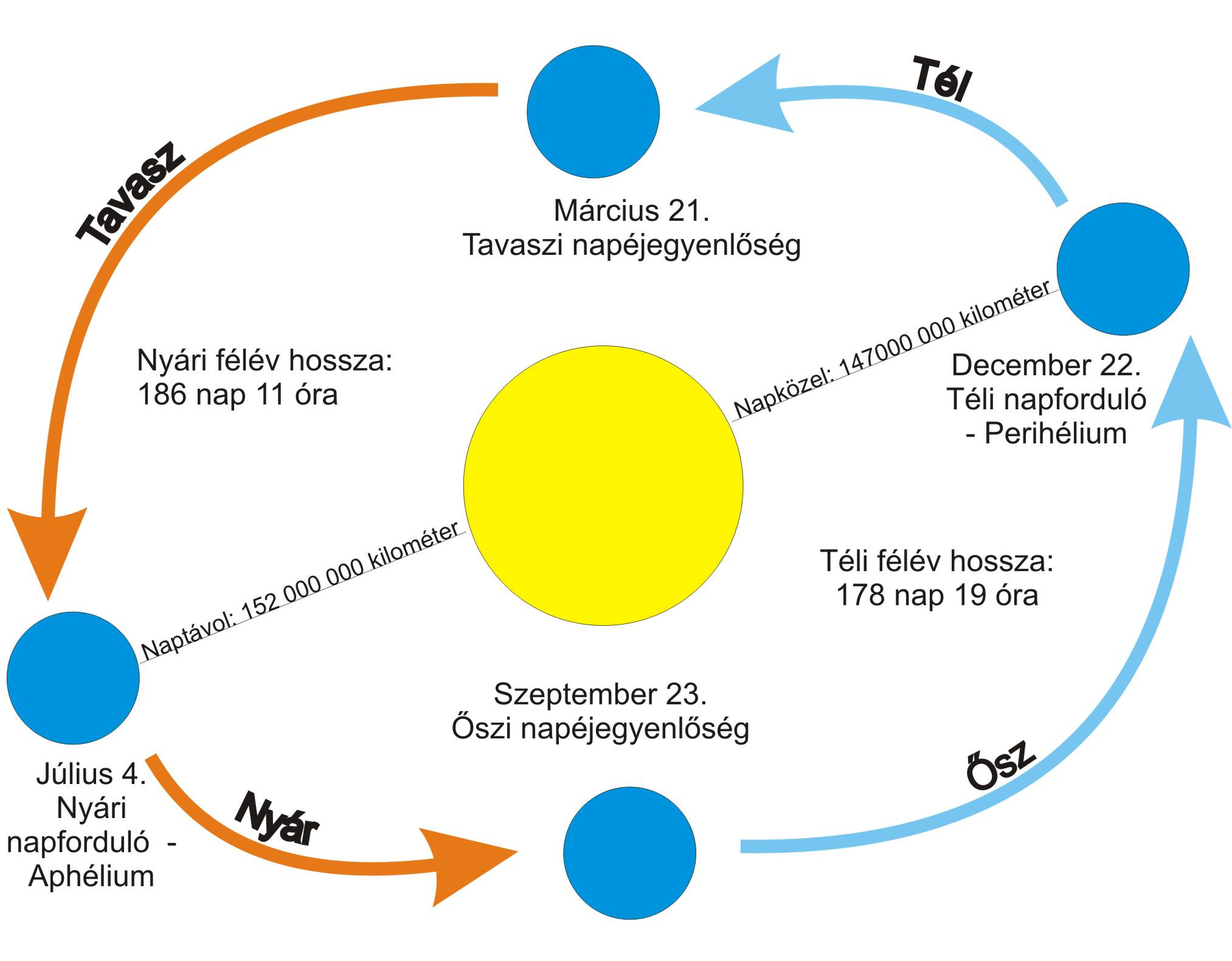 The line of Earth on the Sun